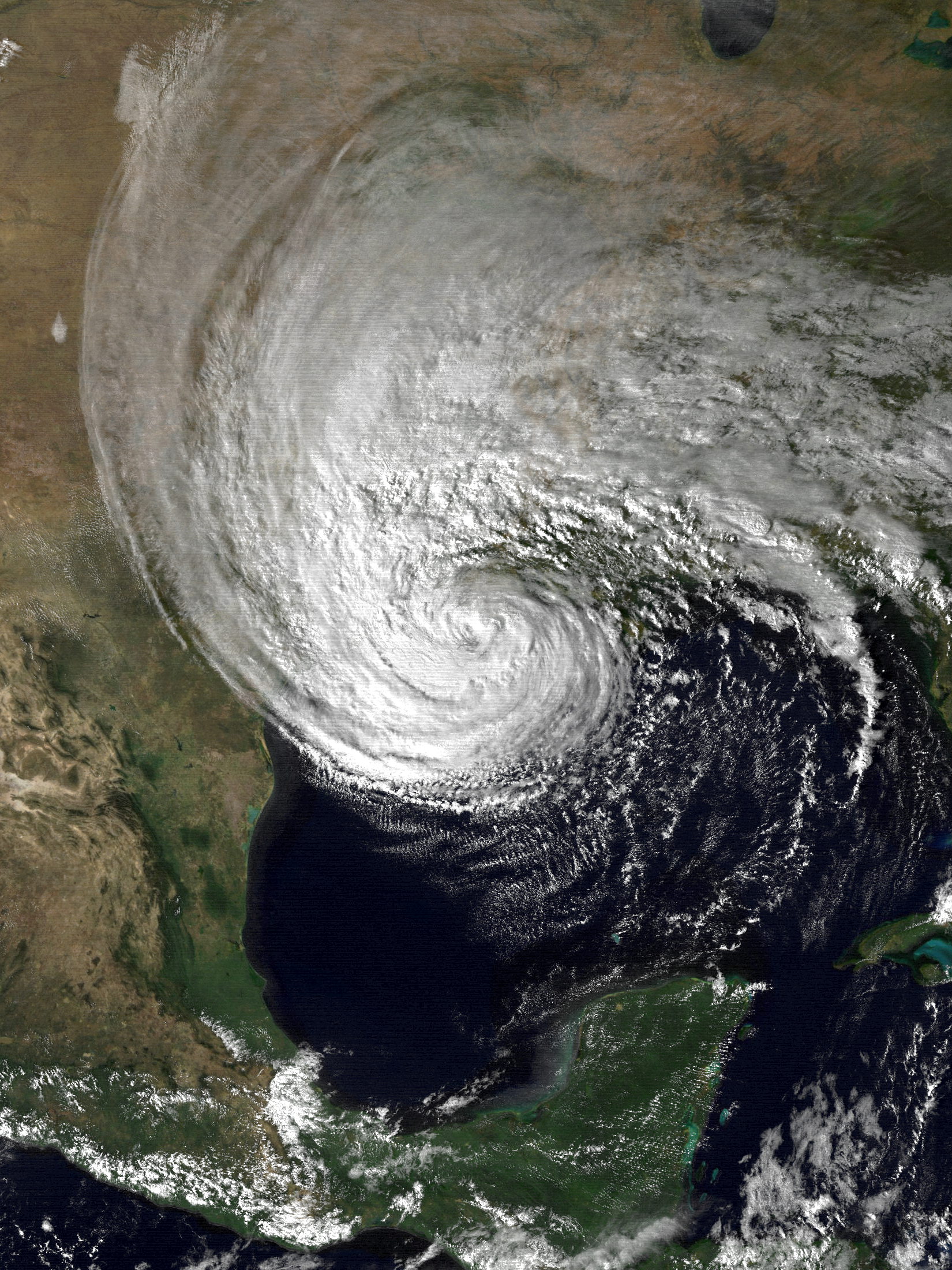 Hurricane Juan on October 28, 1985